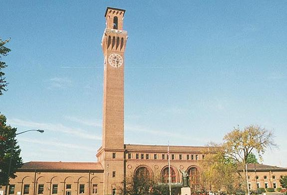 Photo postcard of Union Station and the Clocktower in 1960